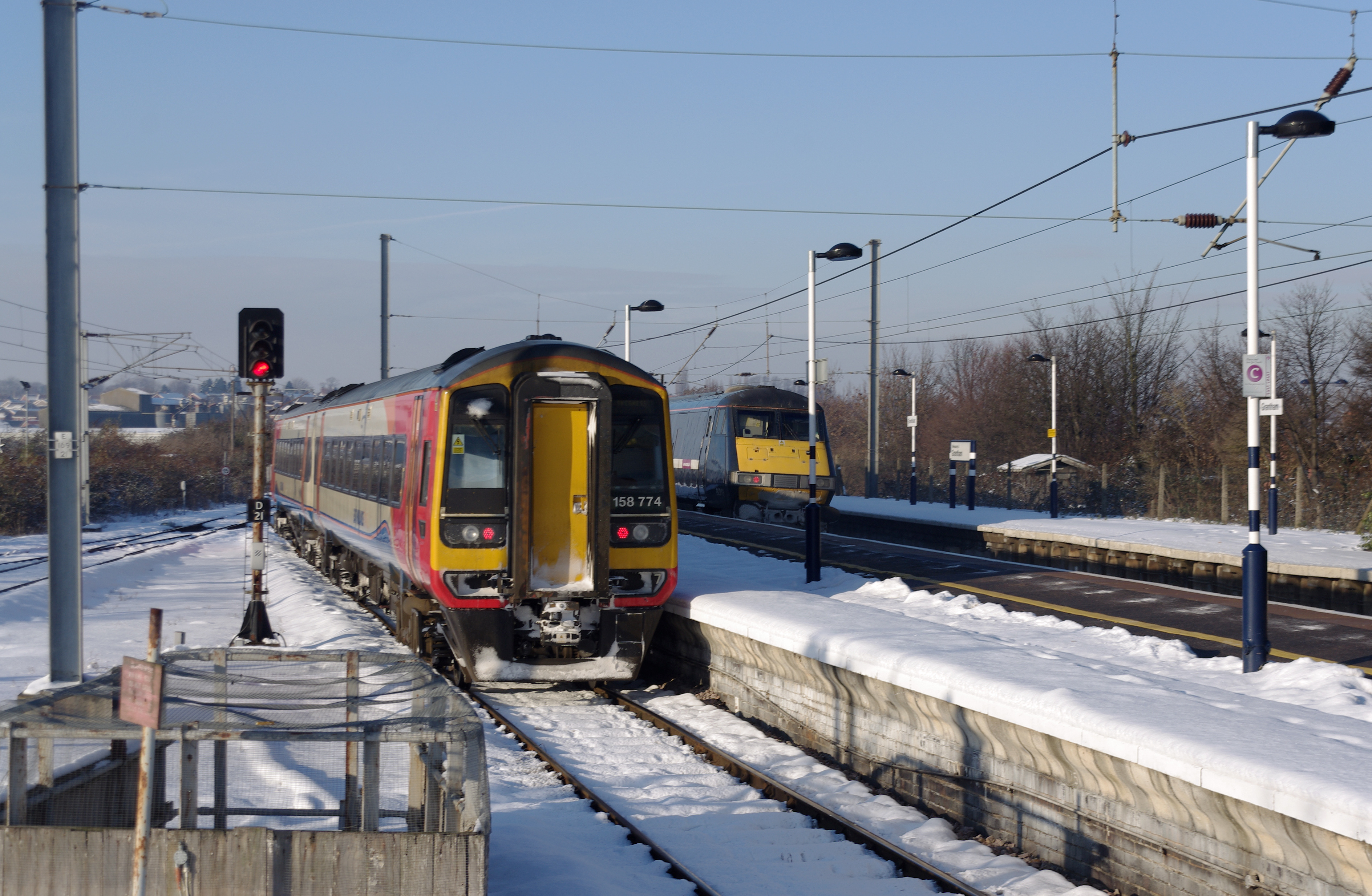 In snowy conditions, East Midlands Trains "Express Sprinter" DMU 158774 departs Grantham railway station with a Nottingham-Skegness service, while on the right an East Coast InterCity 225 passes non-stop with a service to the north.